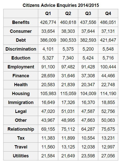 Citizens Advice National Stats 2014/15